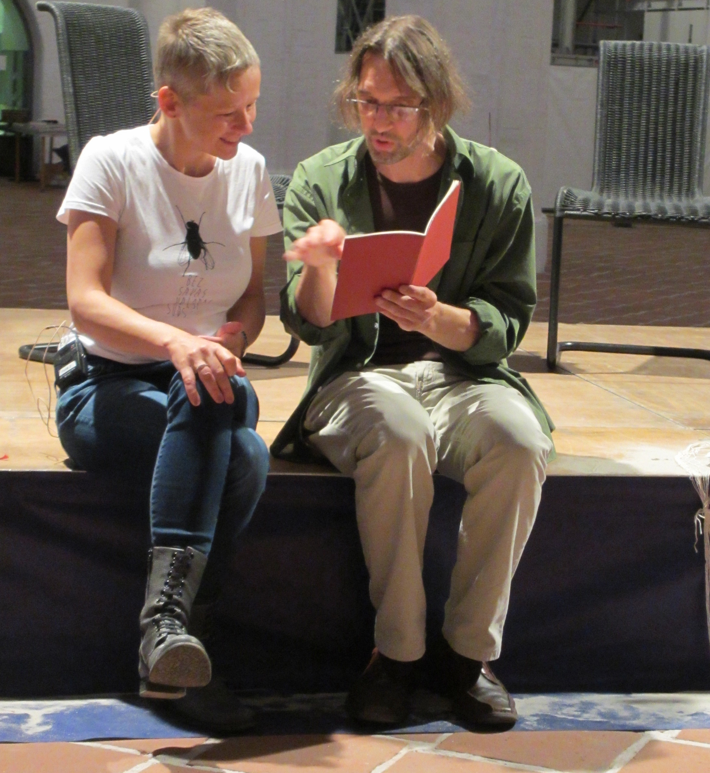 Latvian writer Dace Rukšāne and her German translator (until 2014) Matthias Knoll, St. Petri, Lübeck